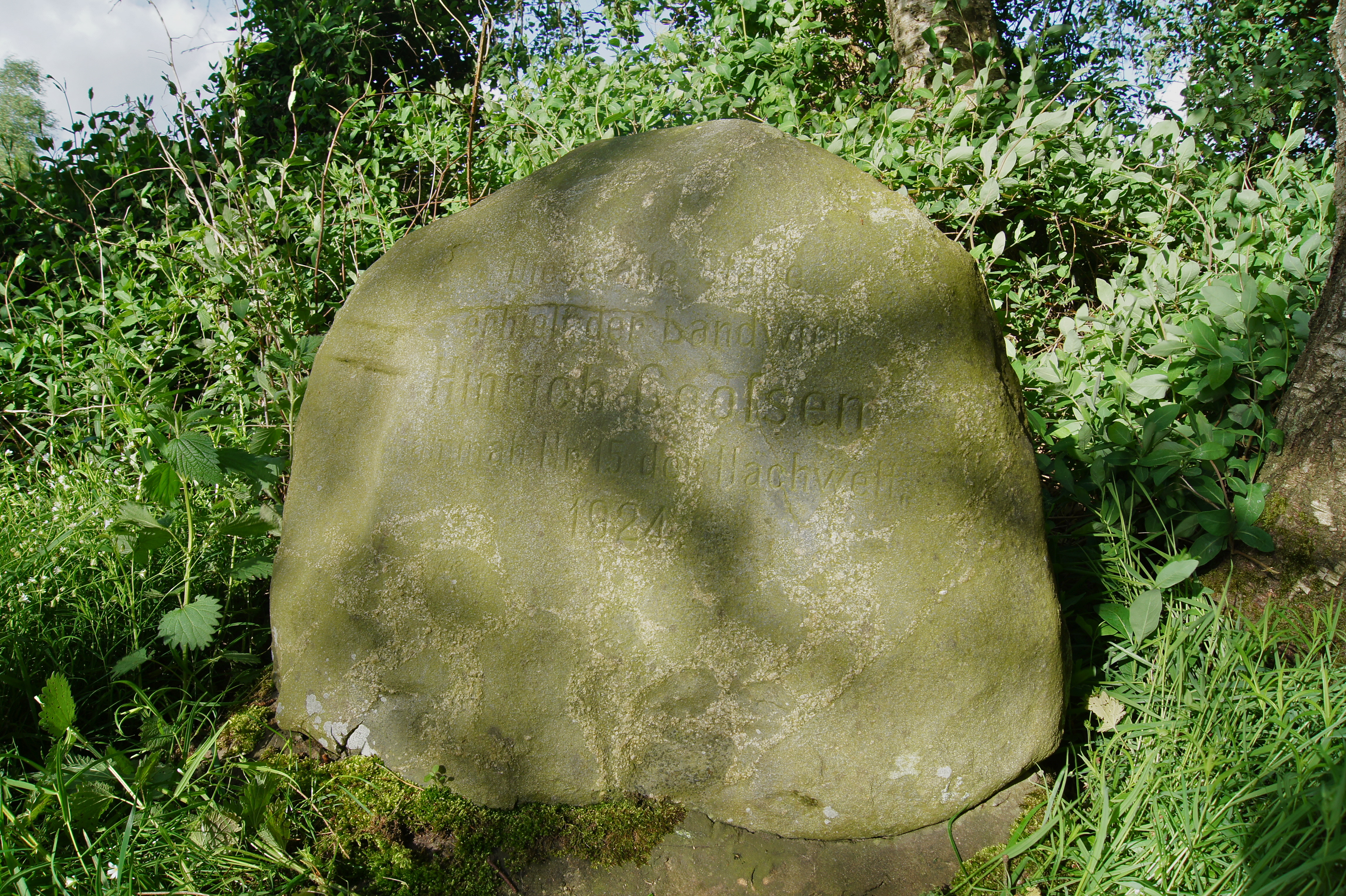 Hammah, Germany: Memorial stone for Hinrich Gooßen, who saved the dolmen before destruction